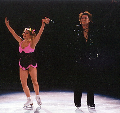 Oksana Kazakova and Artur Dmitriev skate an exhibition program at the 2002 Champions On Ice show in Buffalo, New York.